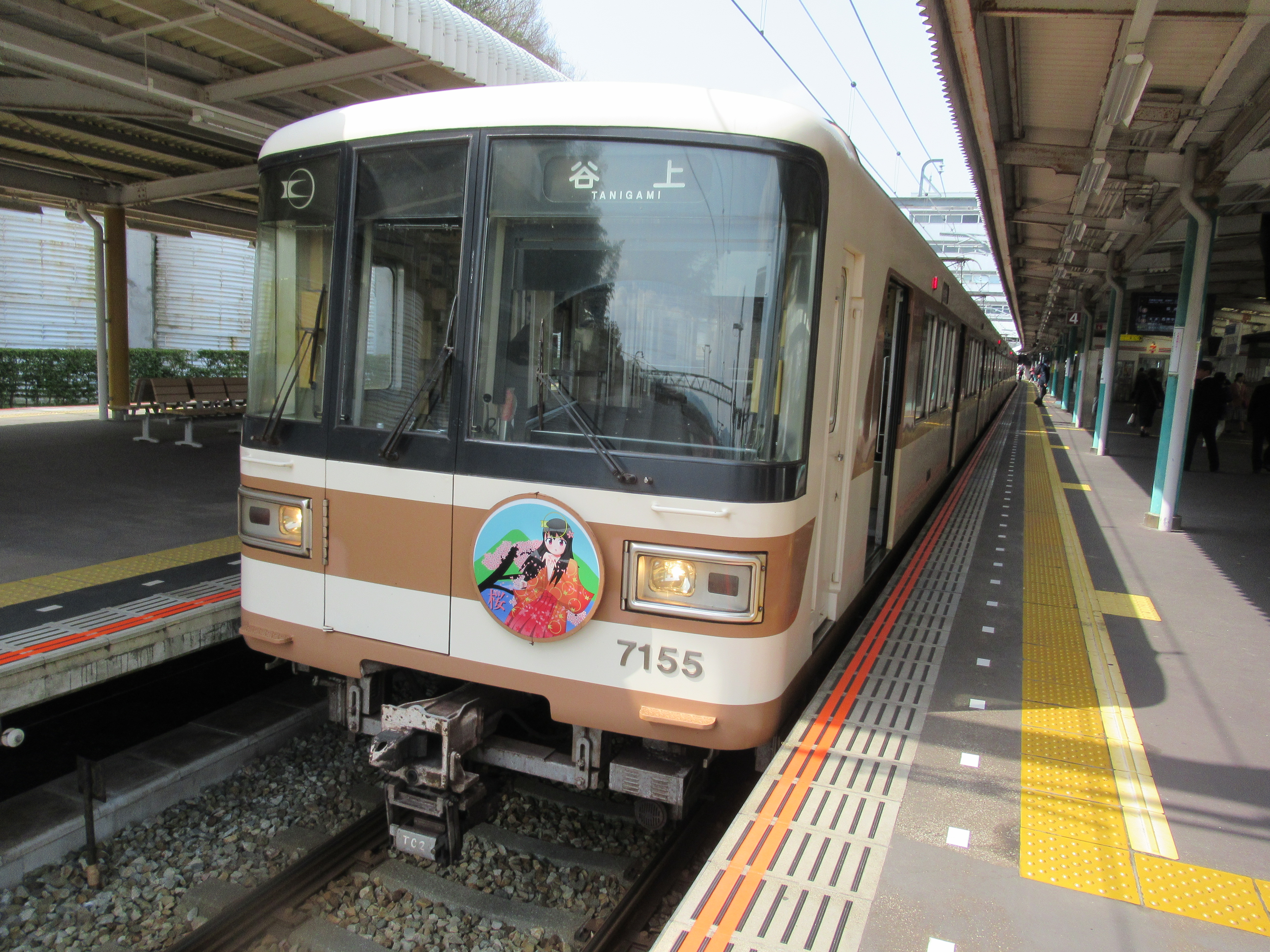 7000 series train stopping at Tanigami station